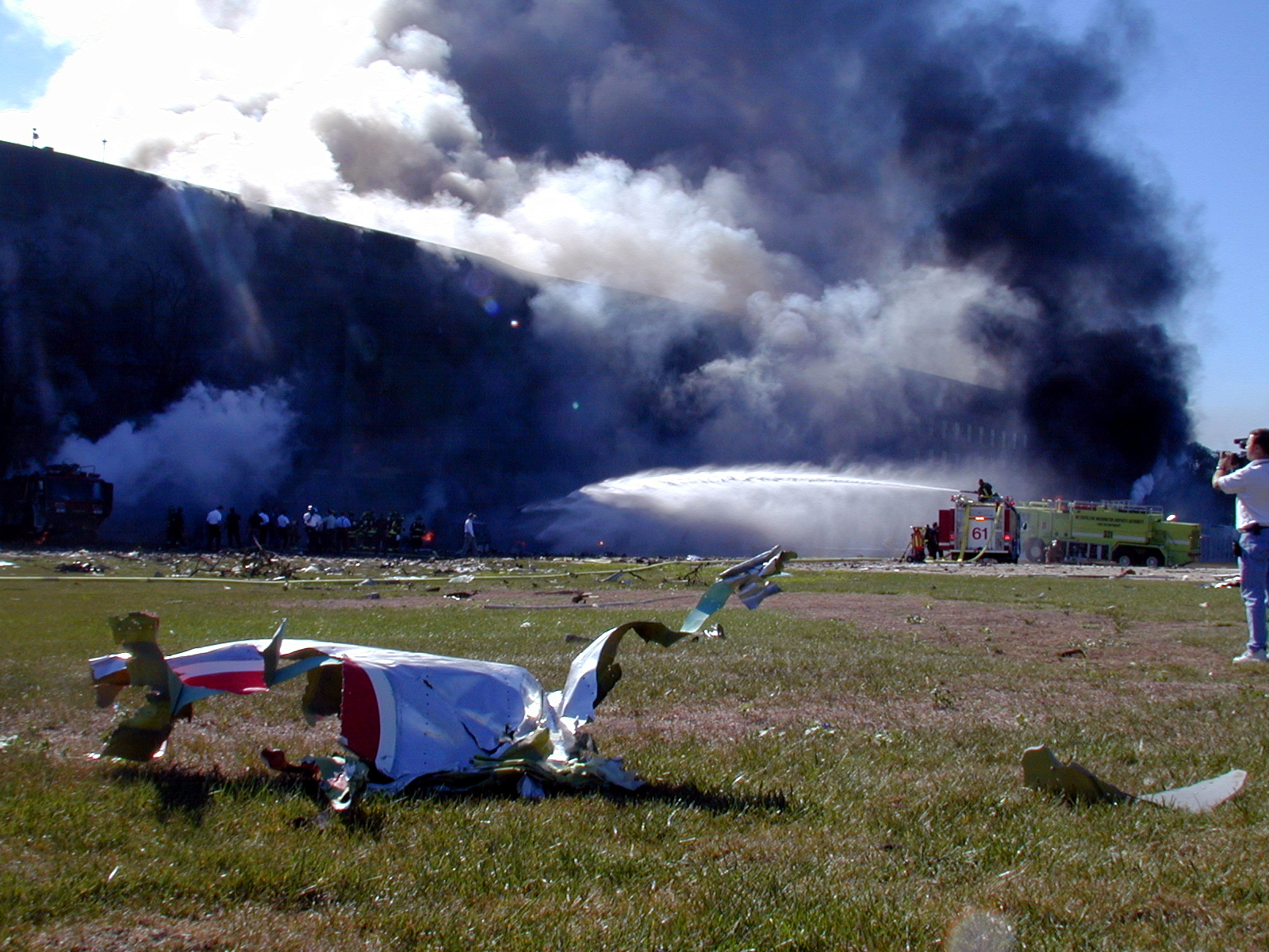 010911-N-6157F-001 Arlington, Va. (Sep. 11, 2001) -- Wreckage from the hijacked American Airlines FLT 77 sits on the west lawn of the Pentagon minutes after terrorists crashed the aircraft into southwest corner of the building. The Boeing 757 was bound for Los Angeles with 58 passengers and 6 crew. All aboard the aircraft were killed, along with 125 people in the Pentagon. U.S. Navy Photo by Journalist 1st Class Mark D. Faram. (RELEASED)